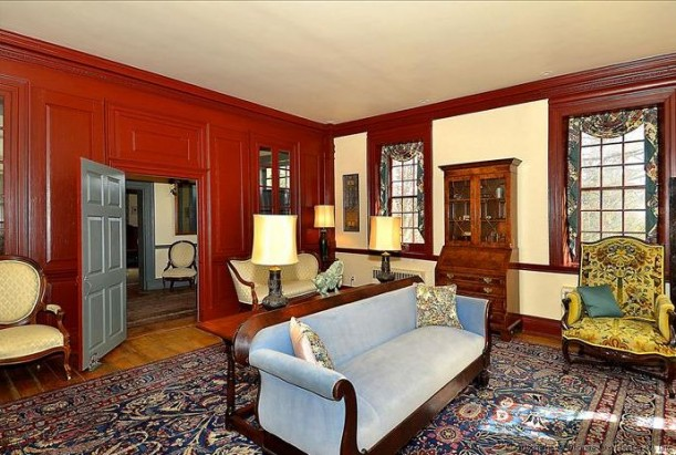 Drawing room of the Bel Air Plantation, c. 1740